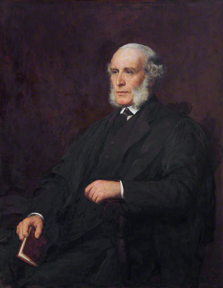 William Aldis Wright (1831–1914), Fellow, Literary and Biblical Scholar oil on canvas 110 x 85 cm 1887